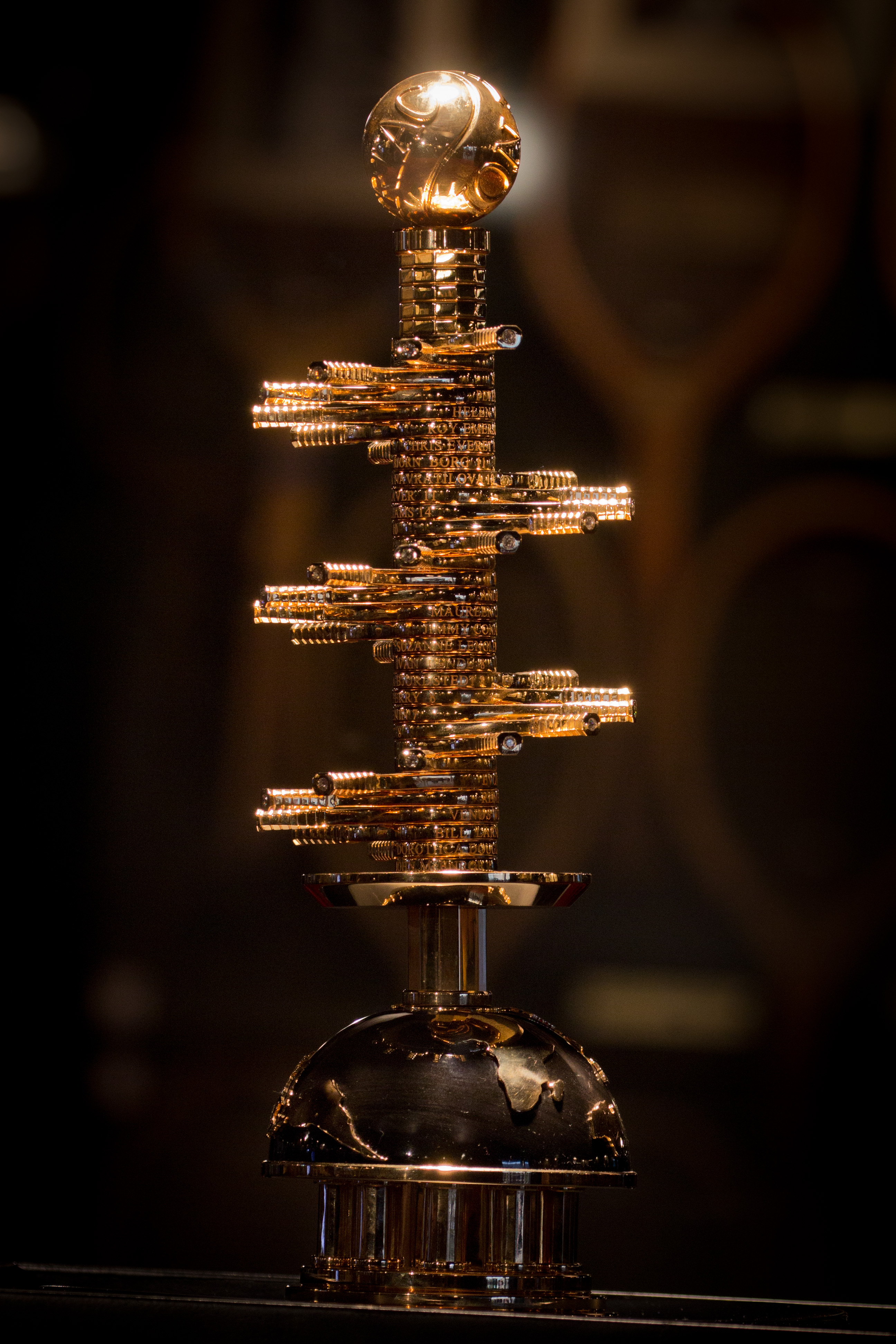 Ion Țiriac trophy of the Madrid Open, Spain.